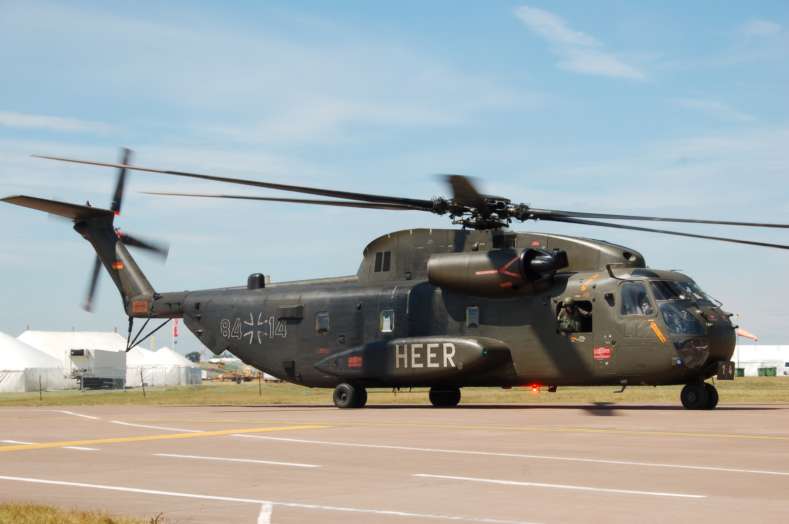 German Army Sikorsky CH-53G Stallion (marked 84-14) taxis to the runway on the 2010 Air Tattoo departures day, at Fairford, Gloucestershire, England. Note that HEER (on the side of the helicopter) means ARMY.